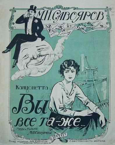 "Le Roi de Excentrique" - russian poet, composer, chansonnier Mikhail Savoiarov